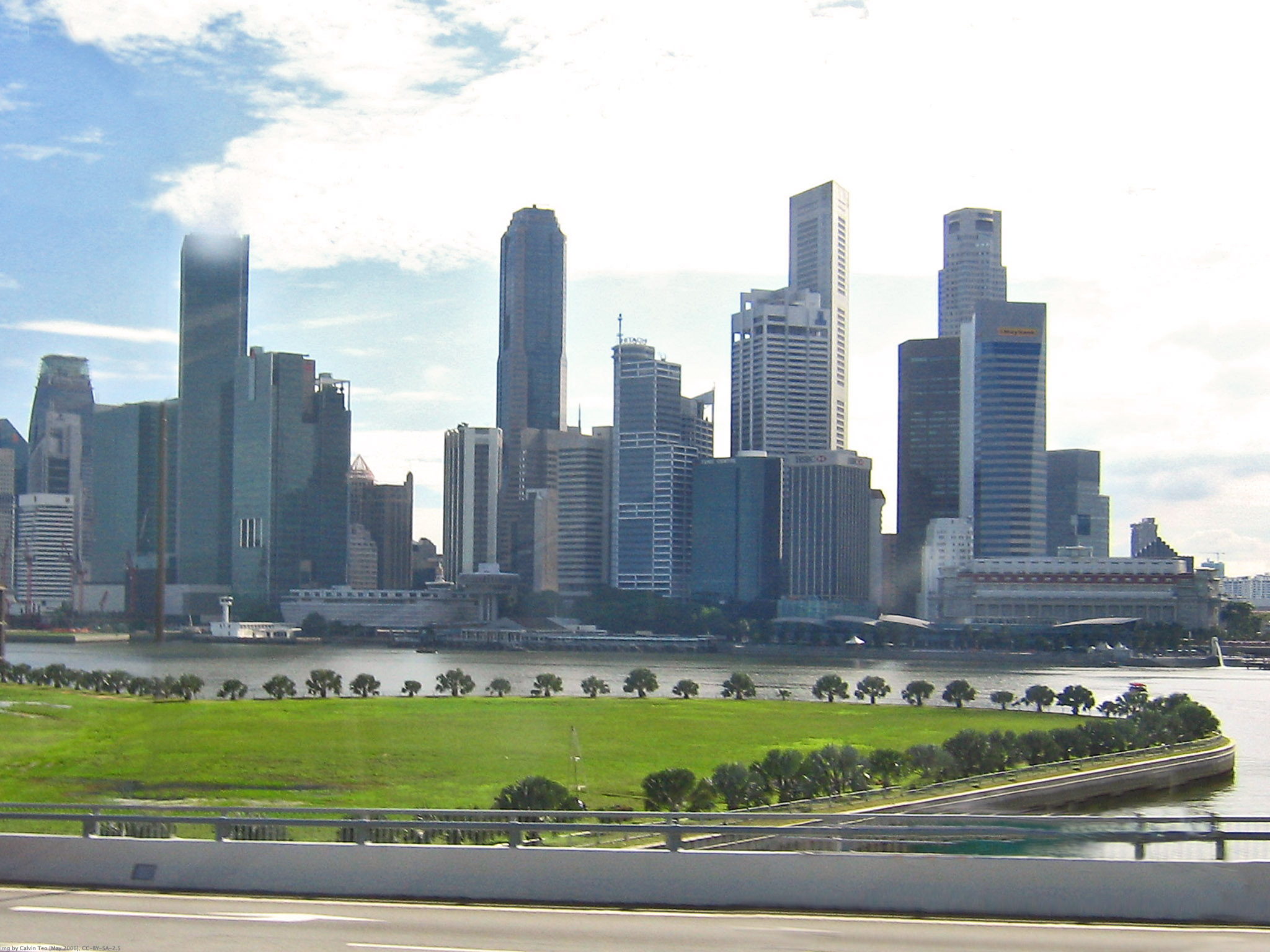 Awaiting the Future - The future Site of the new Integrated Resort along Marina Bay Marina Bay, Republic of Singapore Img by Calvin Teo, May 2006